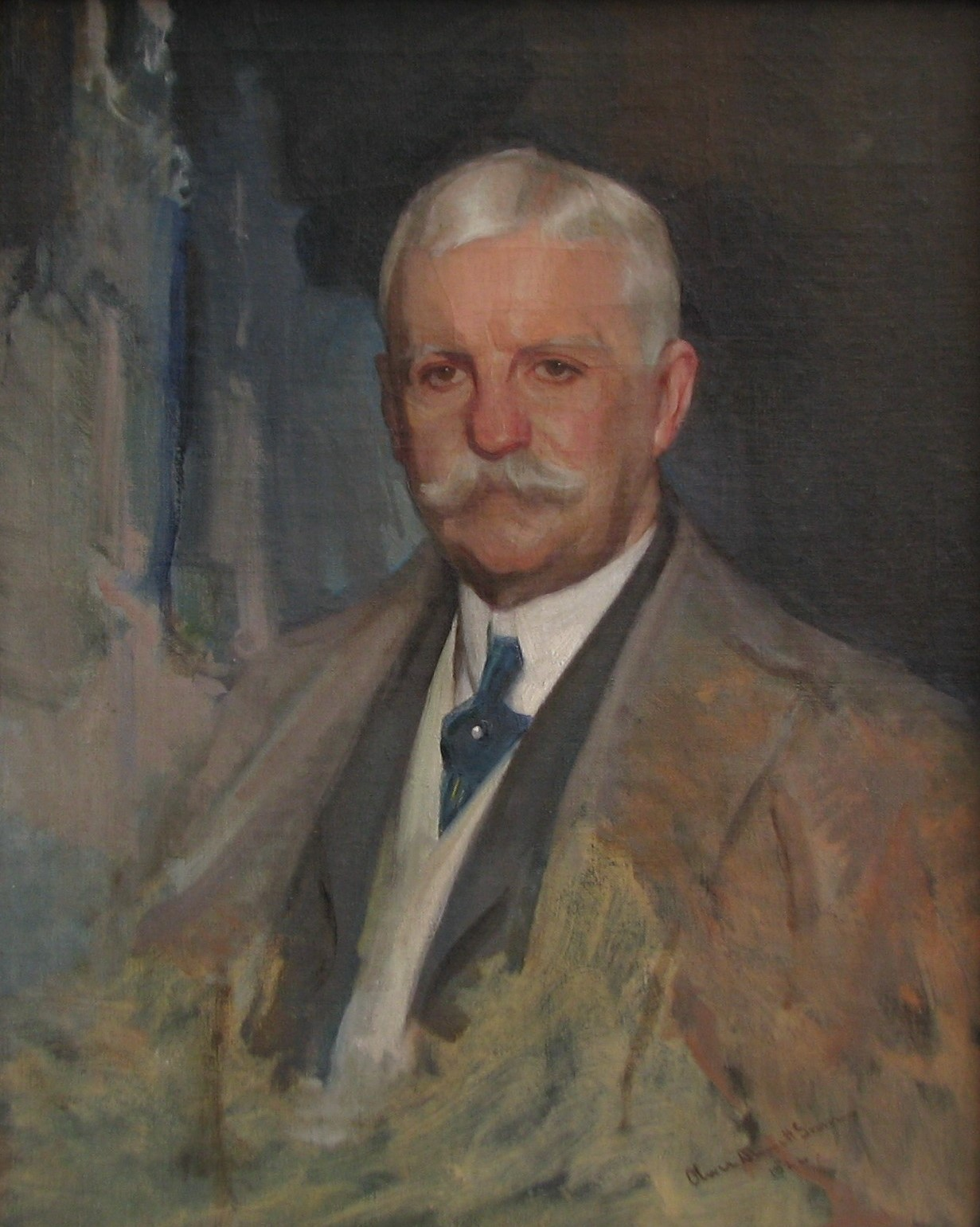 Portrait painting of Chicago lumber tycoon William O. Goodman by Oliver Dennett Grover